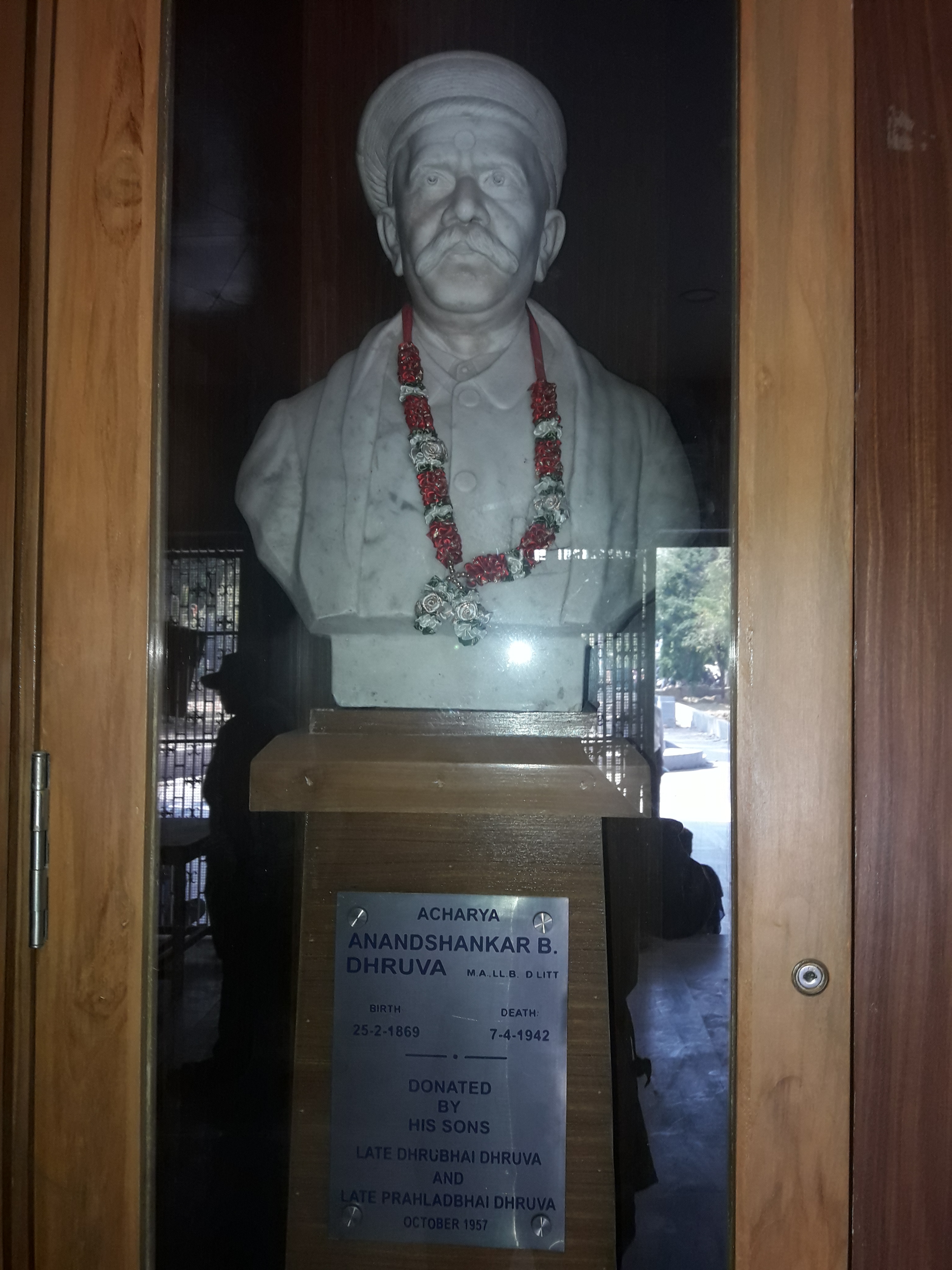 Bust of Gujarati writer Anandshankar Dhruv at Gujarat University (Clock Tower building), Ahmedabad.